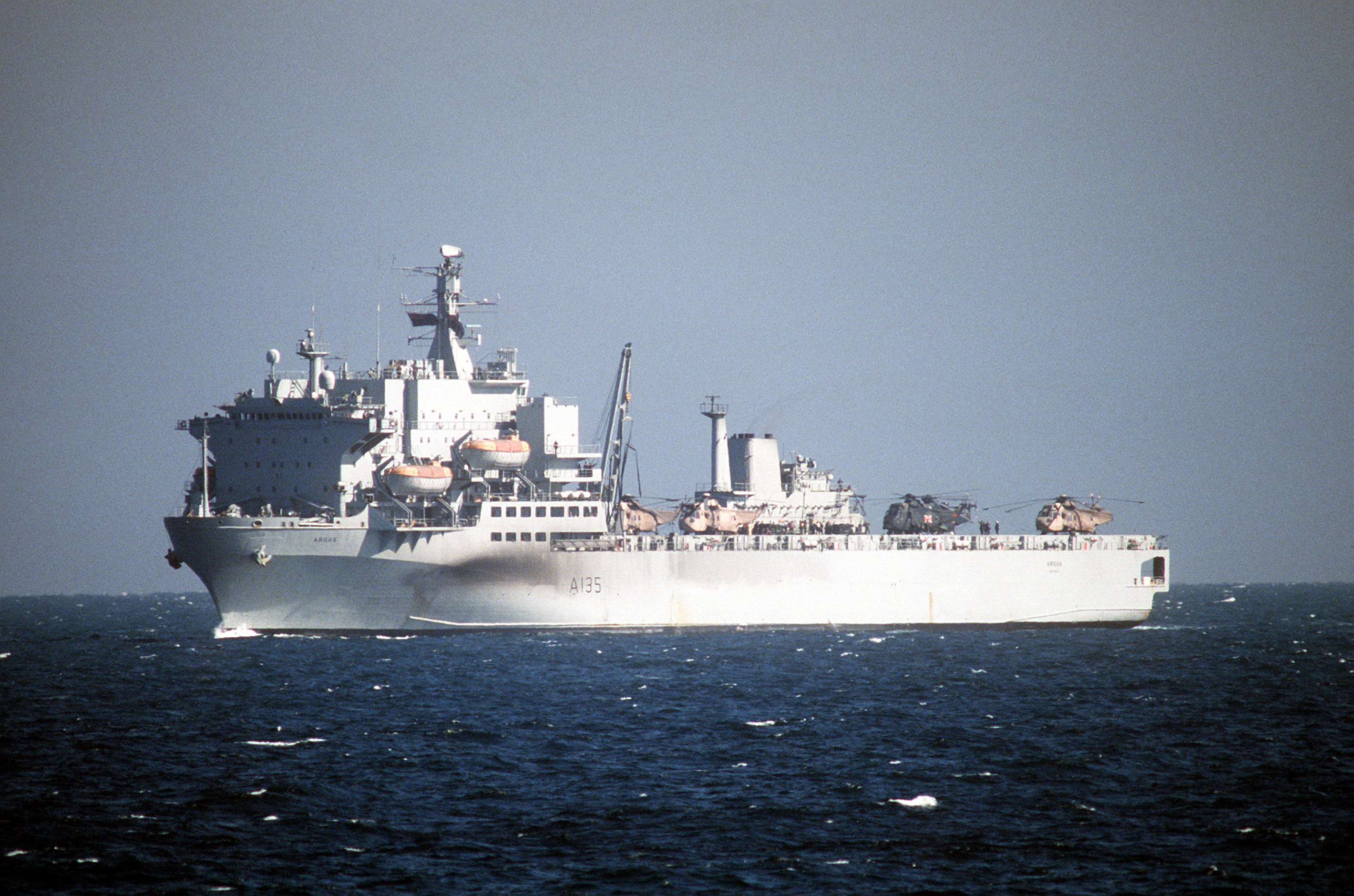 The British Royal Navy aviation training ship RFA Argus (A135) underway in the Persian Gulf. The ship deployed to the Persian Gulf in 1991 for service in the Gulf War. Note: The date given, 1 October 1987, is incorrect, as Argus was commissioned on 1 June 1988 after a four-year refit.